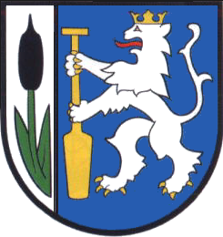 Coat of Arms of Petriroda